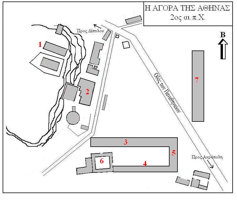 The Agora of Athens during the 2nd century B.C.